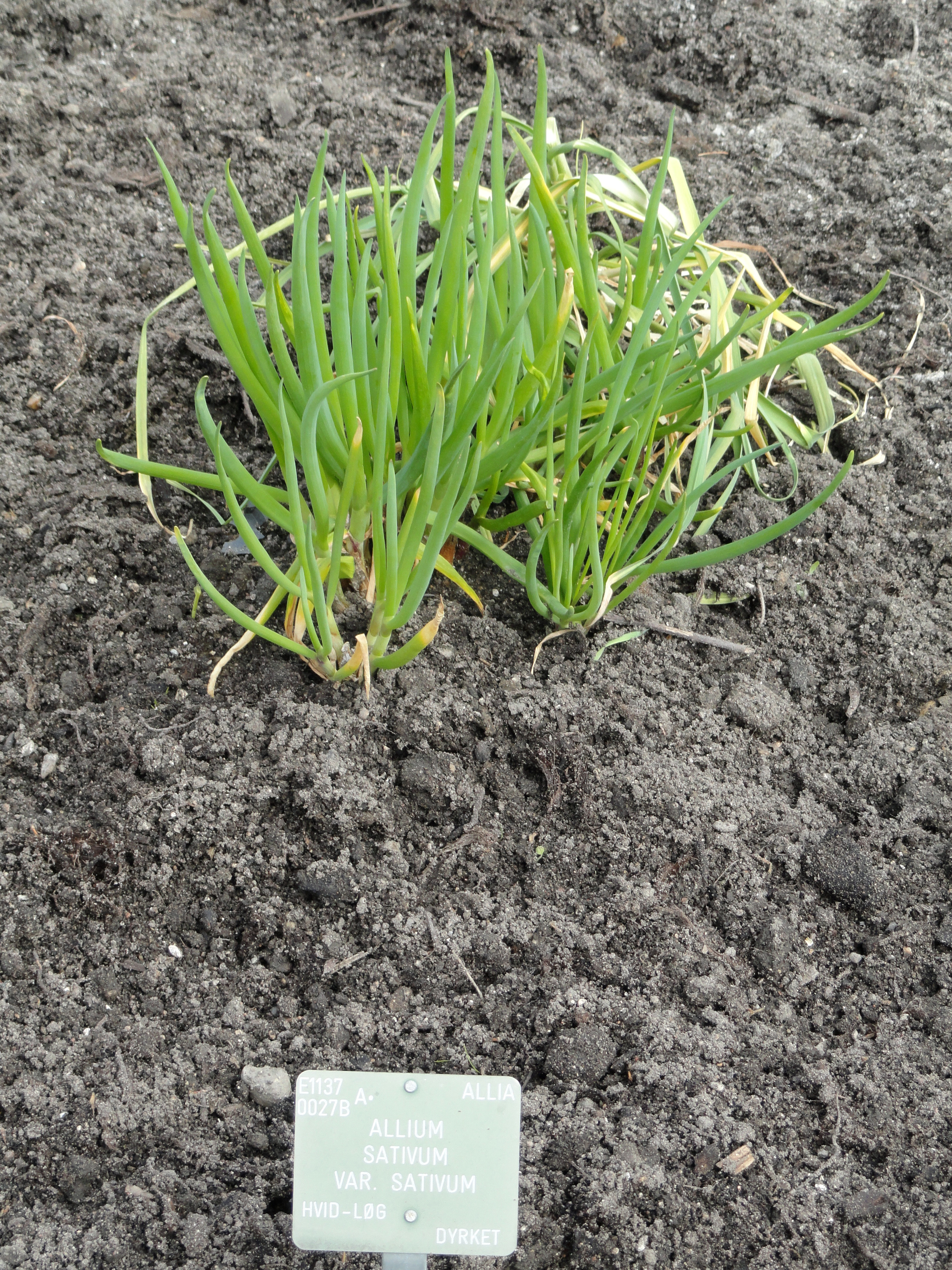 Botanical specimen (labelled Allium sativum var. sativum) in the University of Copenhagen Botanical Garden, Copenhagen, Denmark. This label is incorrect; the variety in question has flat leaves, not tubular leaves. This specimen may be A. fistulosum or another similar species.